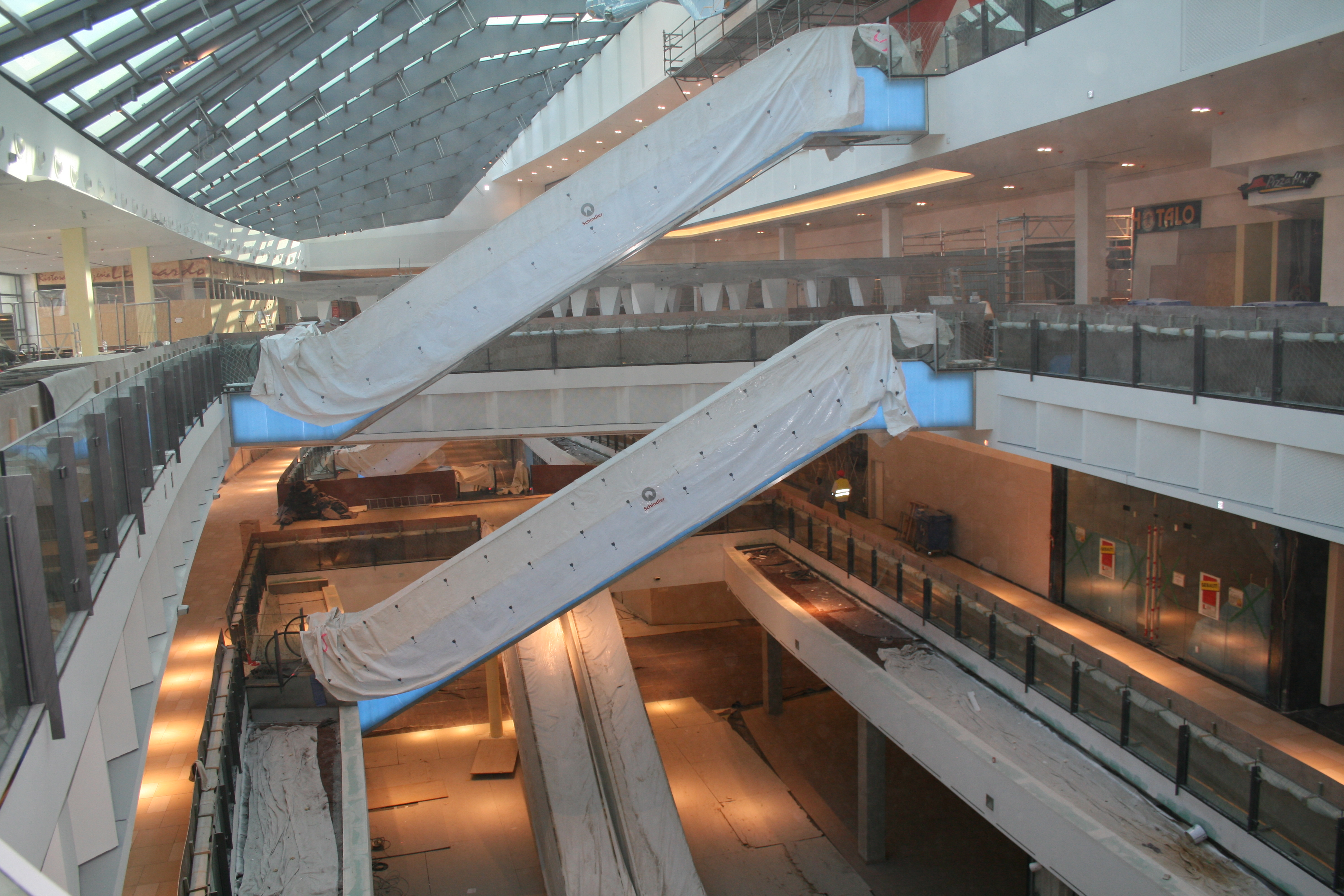 Mal LOOP5 in Weiterstadt (Darmstadt - Hesse - Germany)